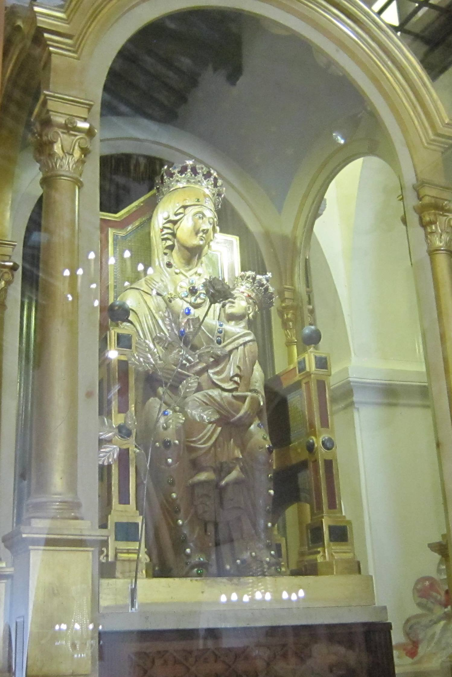 stuatua madonna della mentorella